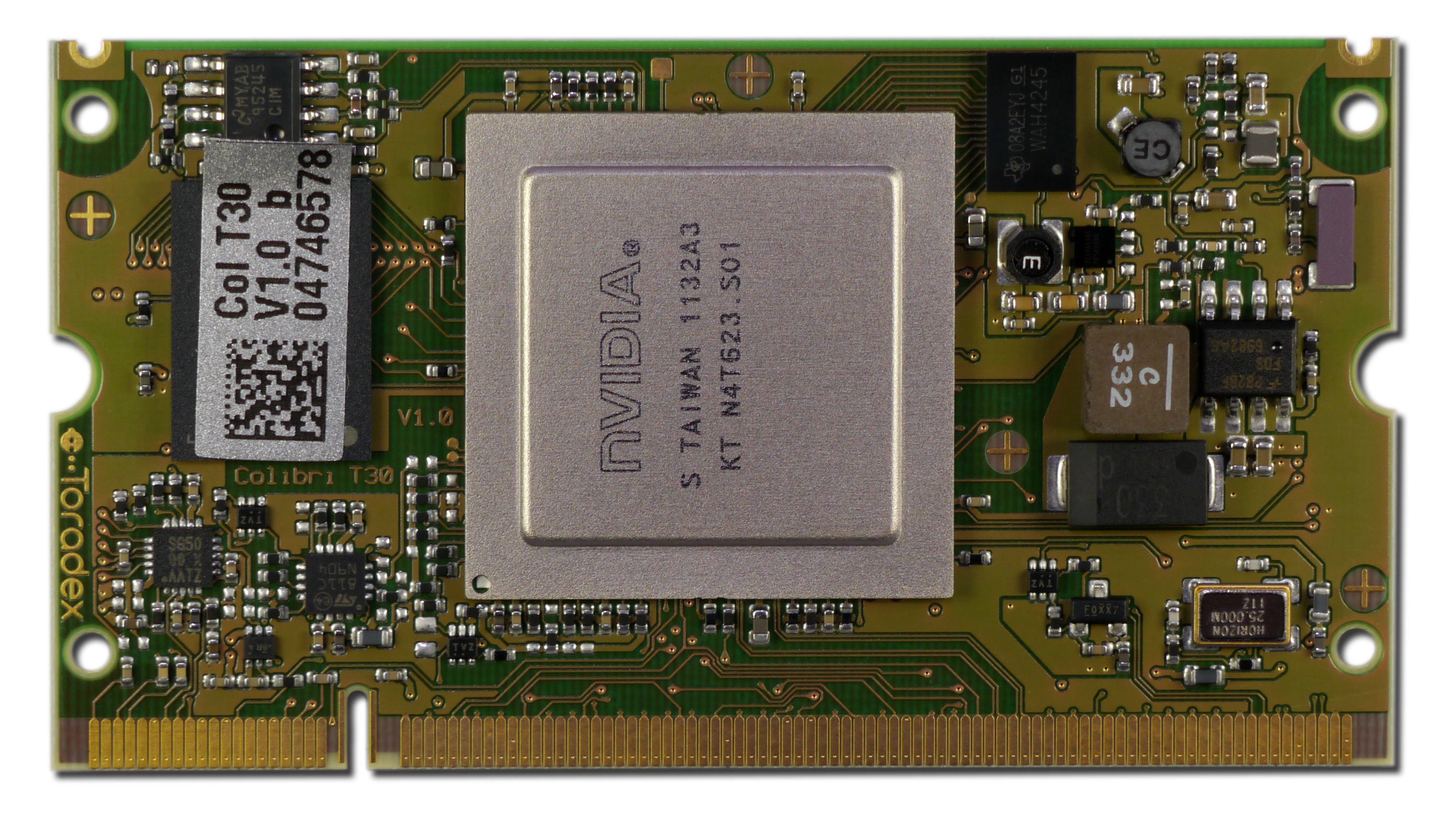 NVIDIA Tegra T3 based Embedded Toradex Colibri T30 Computer On Module